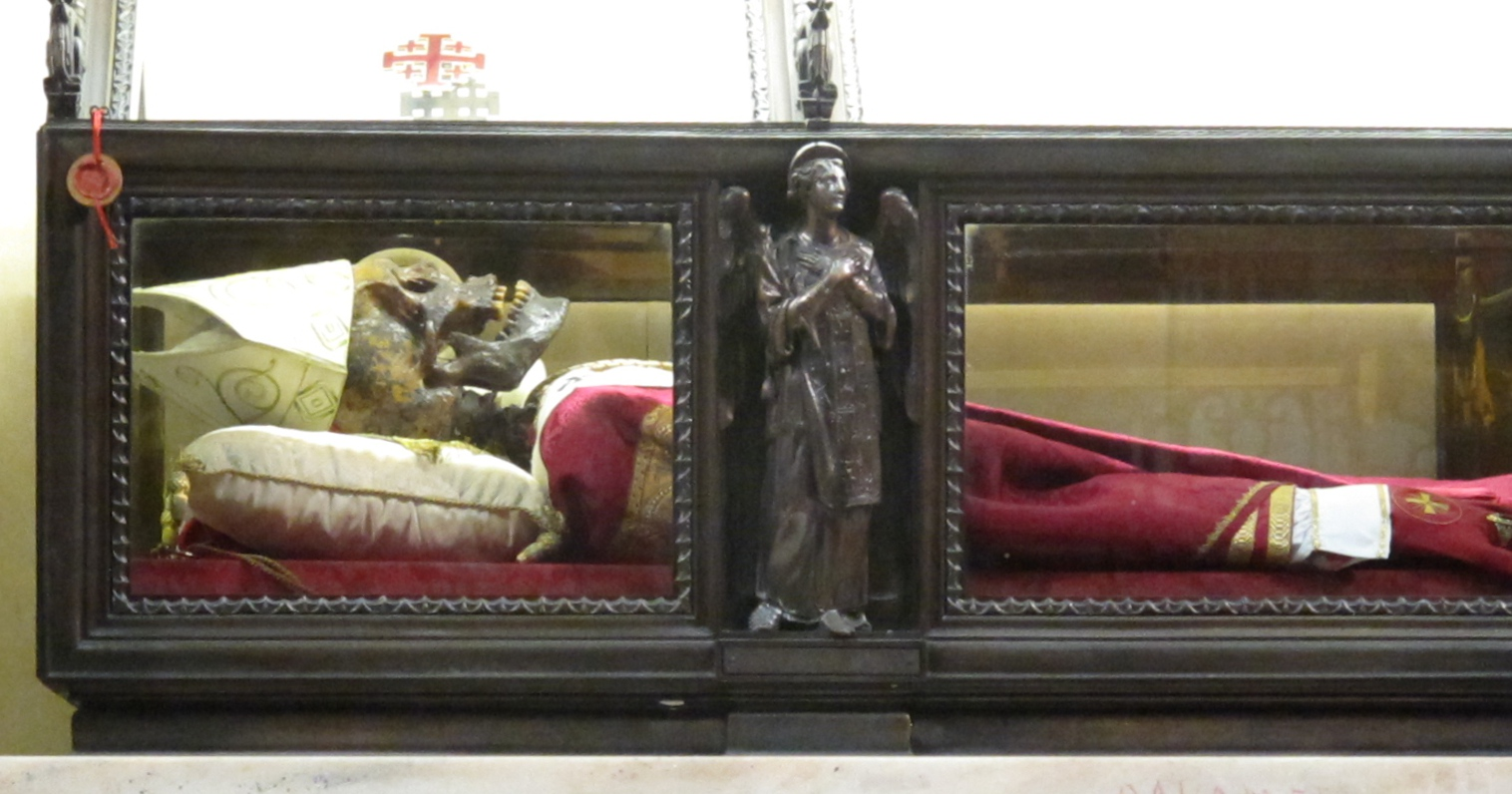 Saint Galdino della Sala, Archbishop of Milan 1166–1176. Altar of Mary in the Left Transept of the Cathedral of Milan.